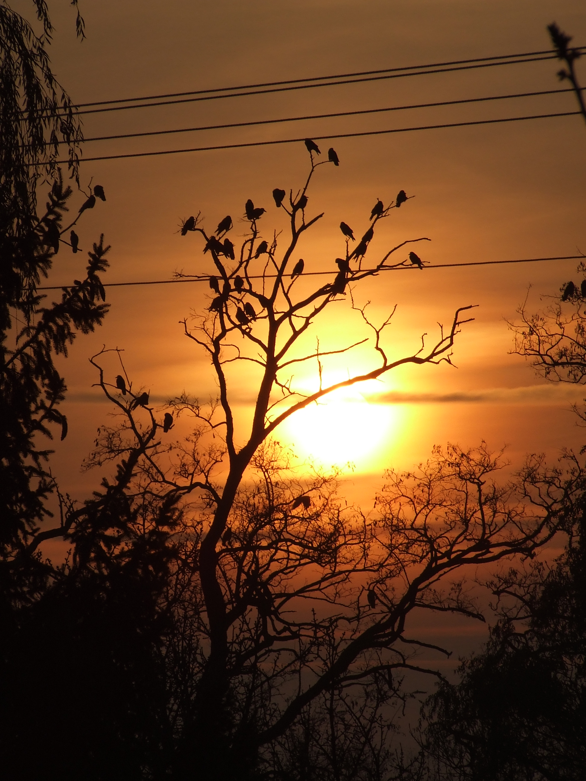 A Rook (Corvus frugilegus) roost near Nyíregyháza, Hungary.